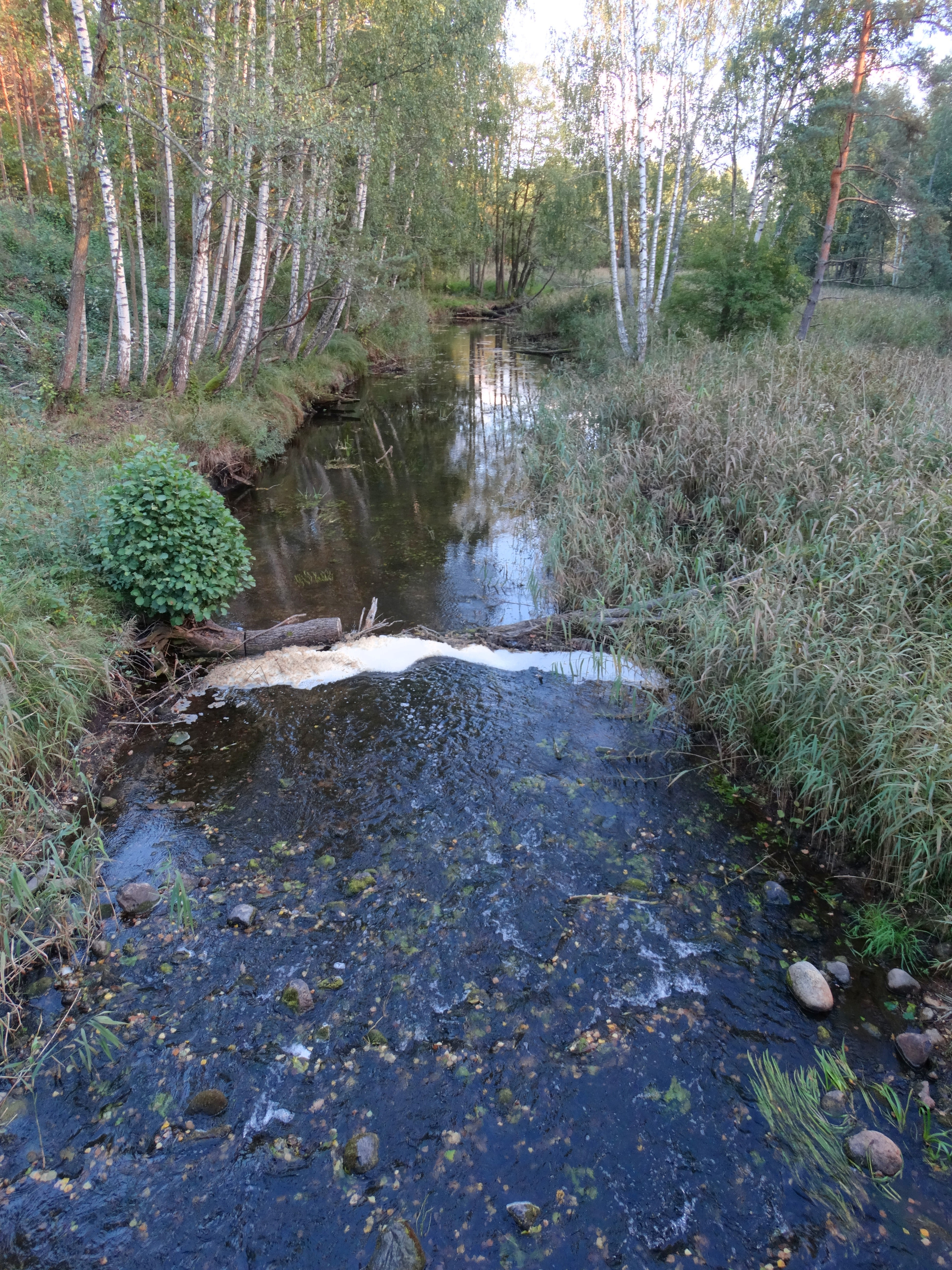 Dysna River, Ignalina district, Lithuania